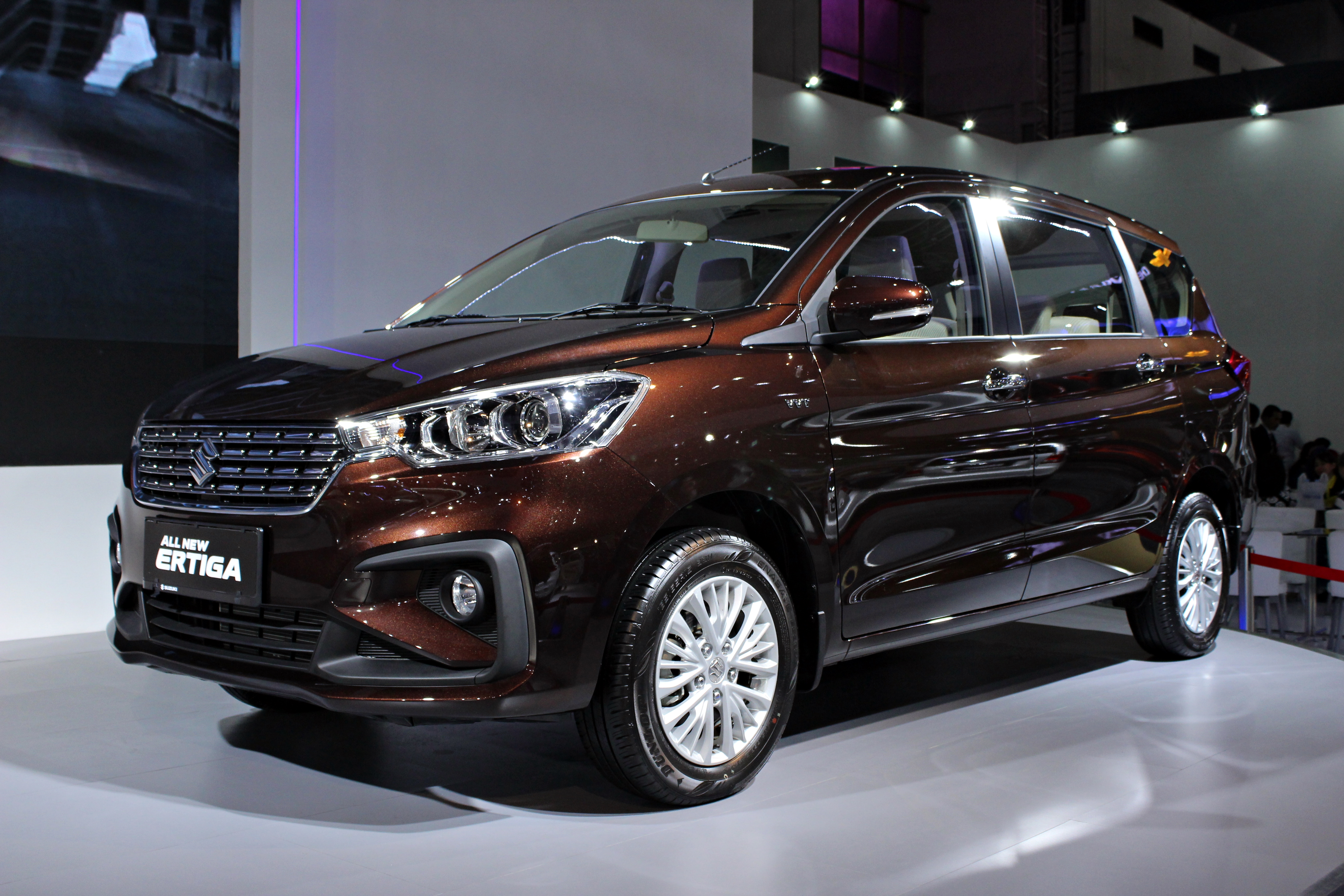 A Suzuki Ertiga GX 1.5 photographed in Indonesia International Motor Show 2018, Jakarta, Indonesia on April 26, 2018.